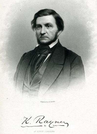 Lithograph print of Kenneth Rayner from 1850